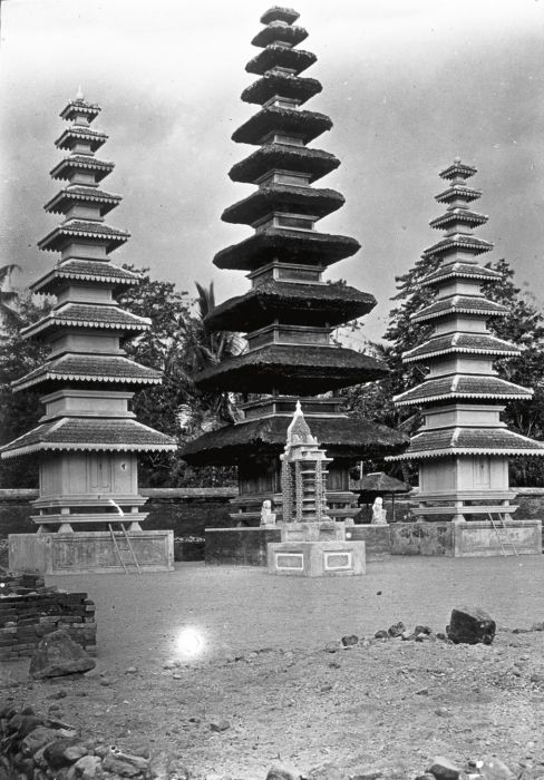 Merus and a throne for gods at a the Pura Meru